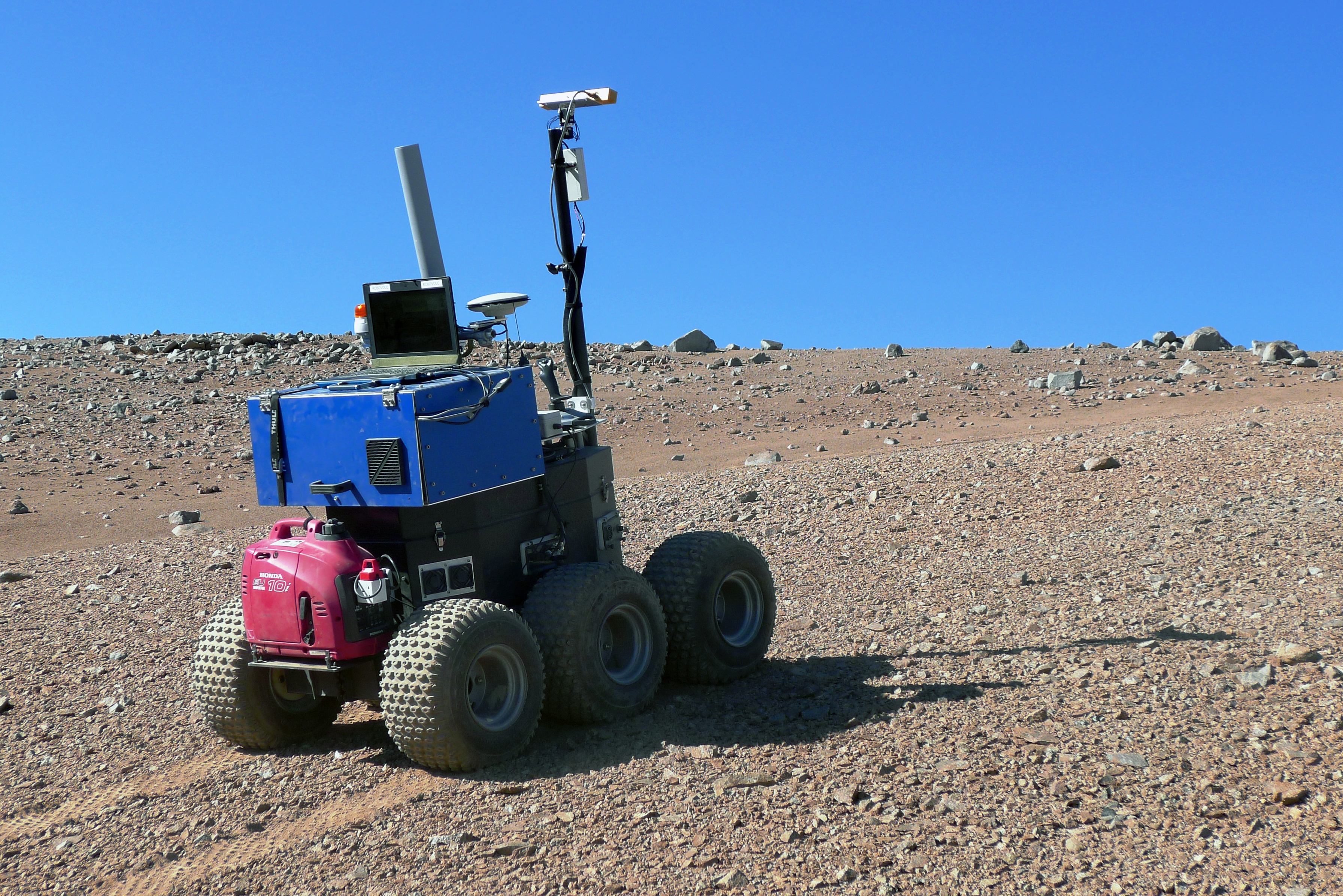 This view of the Mars-like landscape close to ESO’s Paranal Observatory shows one of ESA’s Seeker prototype Mars rover vehicles during tests. Seeker used its stereo vision to map its surroundings, assess how far it had moved and plan its route, taking care to avoid obstacles.